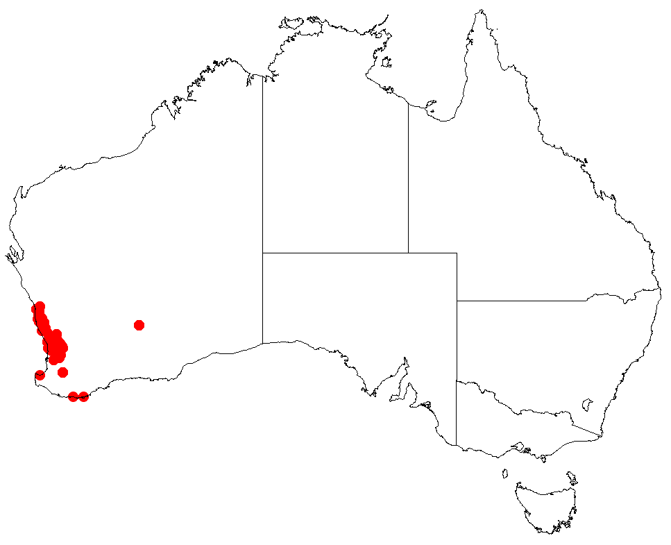 Macrozamia fraseri occurrence data downloaded from Australasian Virtual Herbarium using